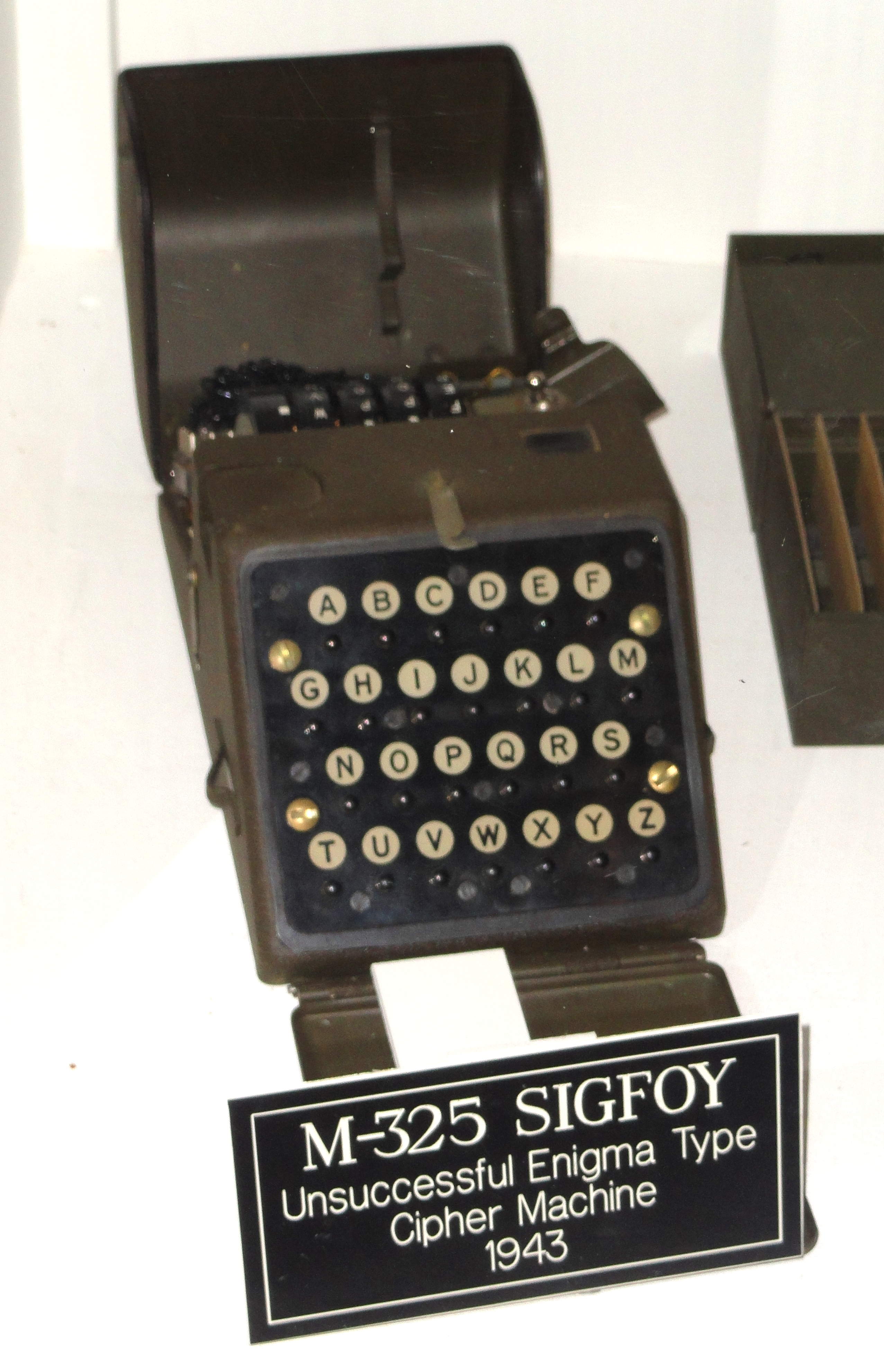 Exhibit in the National Cryptologic Museum, Fort Meade, Maryland, USA. All items in this museum are unclassified; items created by the United States Government are not subject to copyright restrictions.